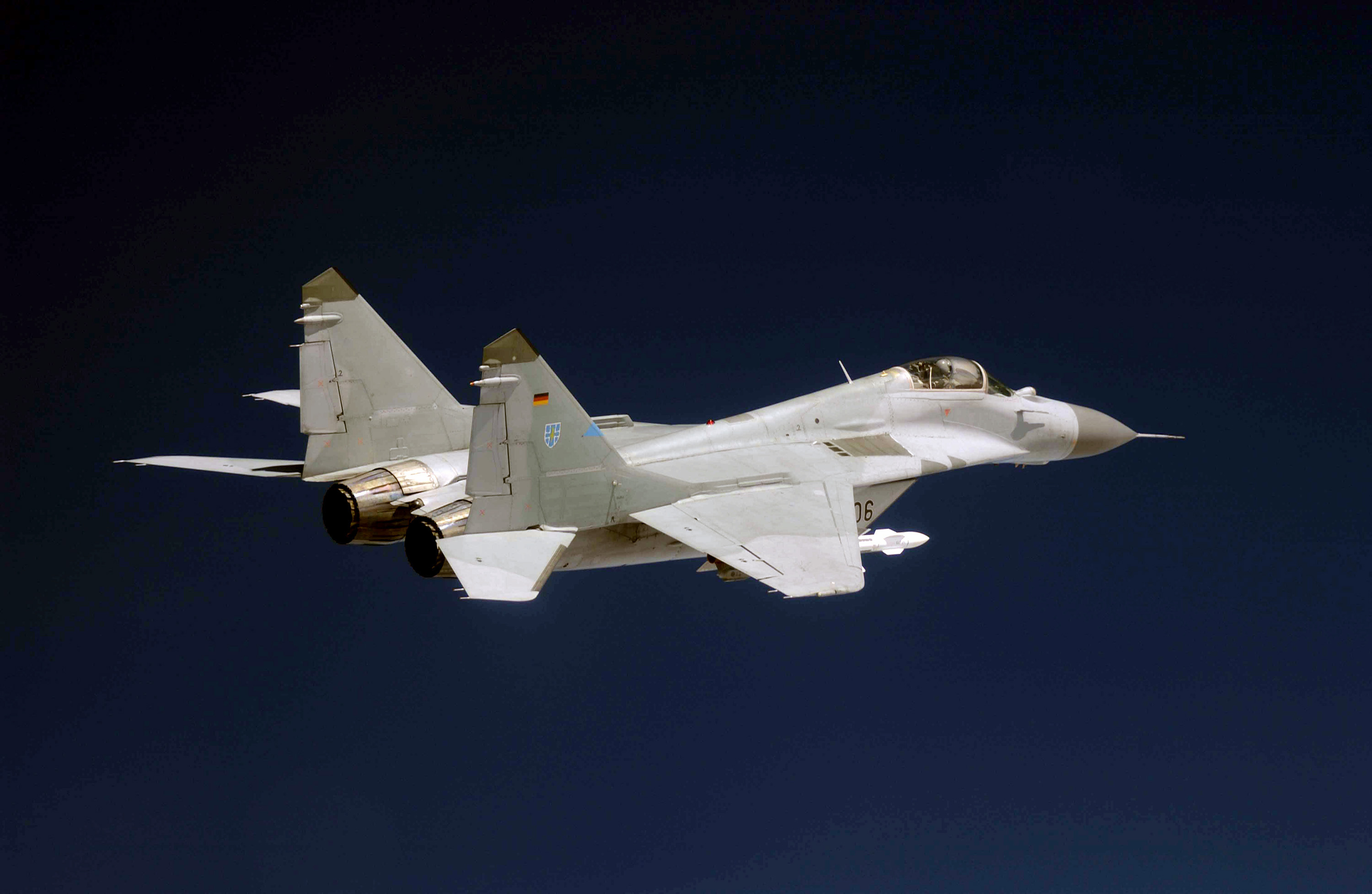 A Soviet-built MiG-29 Fulcrum fighter from Germany (DEU), flown by Colonel (COL) Pitt Hauser, Wing Commander of the 73rd Fighter Wing (FW), Laage Air Base (AB), Germany, flies over the Gulf of Mexico during a live-fire training exercise.